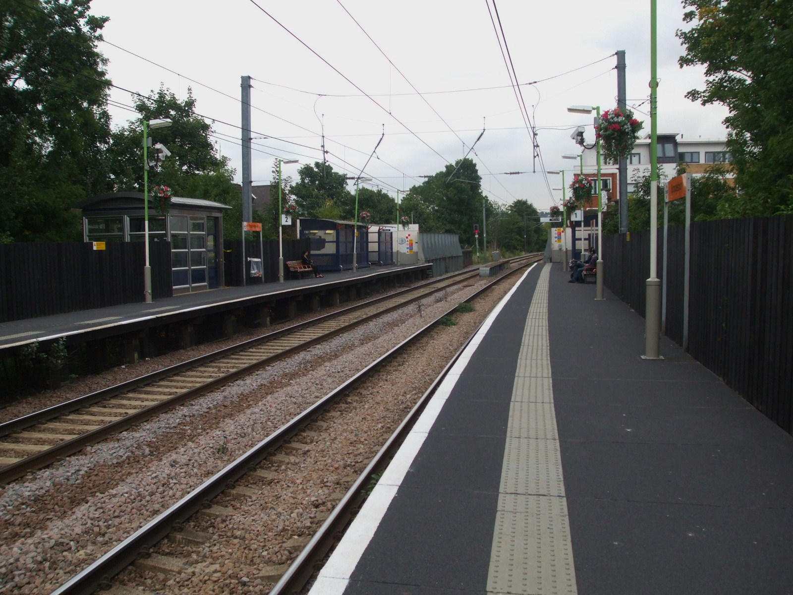 Brondesbury station looking east. Temporary signs, photo taken August 2008.